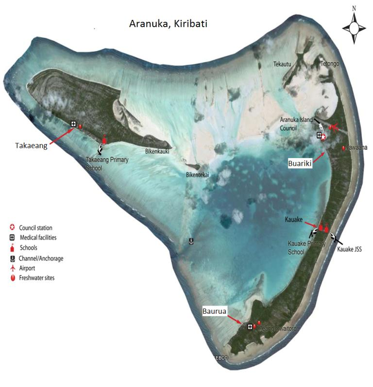 Astronaut photo of Aranuka, Kiribati with villages and main landmarks